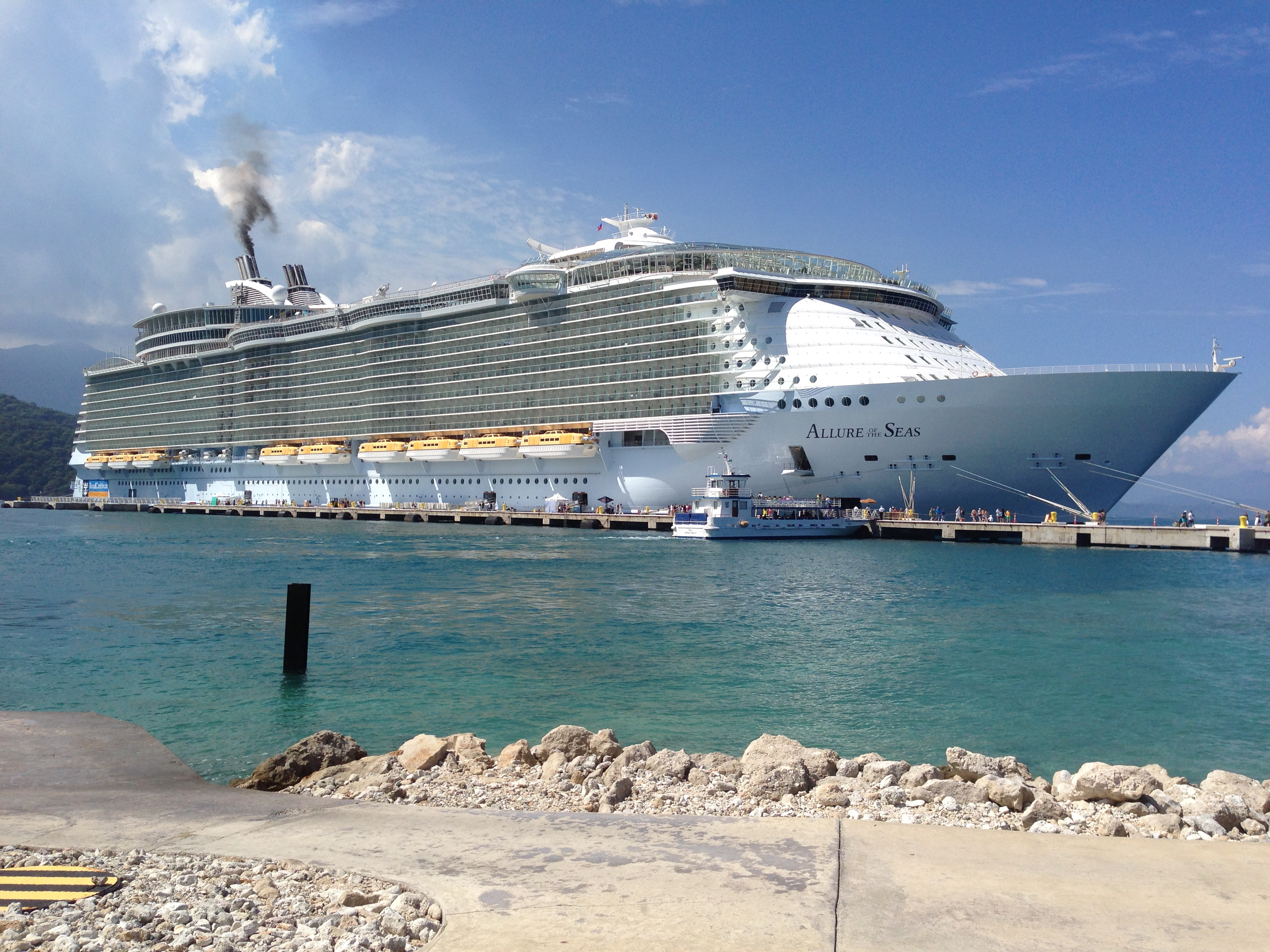 Allure of the Seas dockside in Labadee, Haiti.